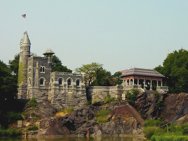 Belvedere Castle, Central Park, New York City, New York, U.S.A. Version of image:BelvedereCastle.JPG corrected for underexposure.